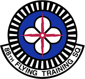 88th Flying Training Squadron emblem